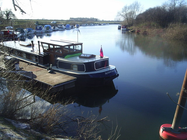 River Ouse nr Linton Lock